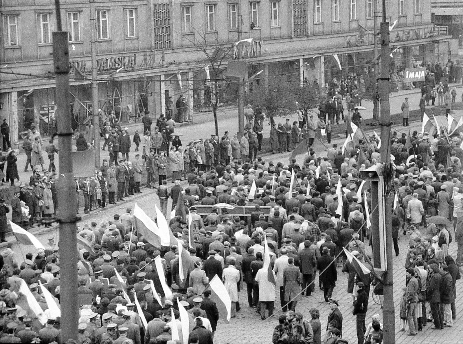 May 1st, 1982 - martial state in Poland; official communist "Workers' Day" procession in Wrocław